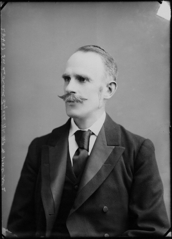 by Alexander Bassano, dry-plate glass negative, circa 1898